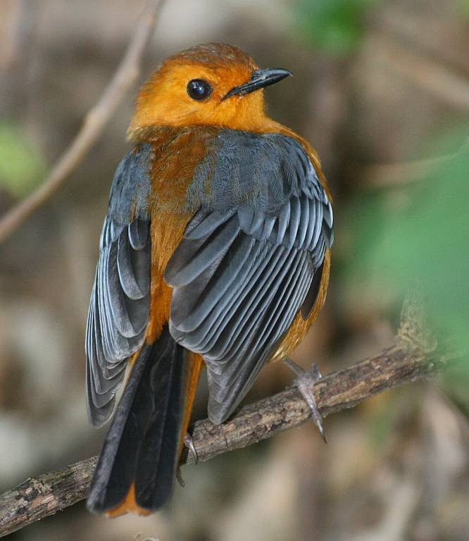 Location: Umhlanga, KwaZulu-Natal, South Africa For more information on this species